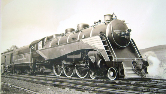 Photo postcard of a 4-6-2 steam locomotive #1123 of the Delaware, Lackawanna and Western Railroad at Norwich, New York.